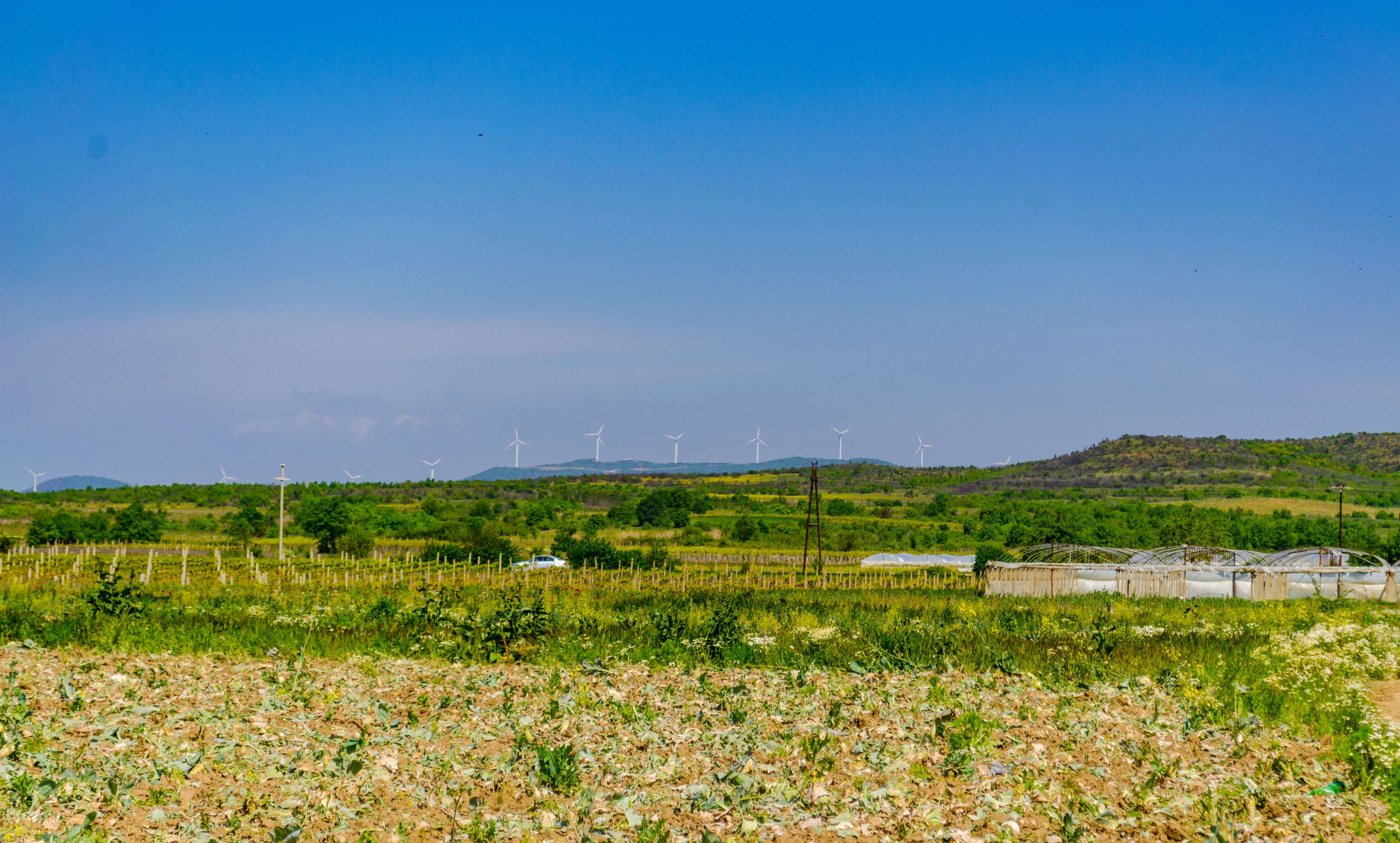 Turbines in Wind farm Bogdanci, photographed from the village Selemli